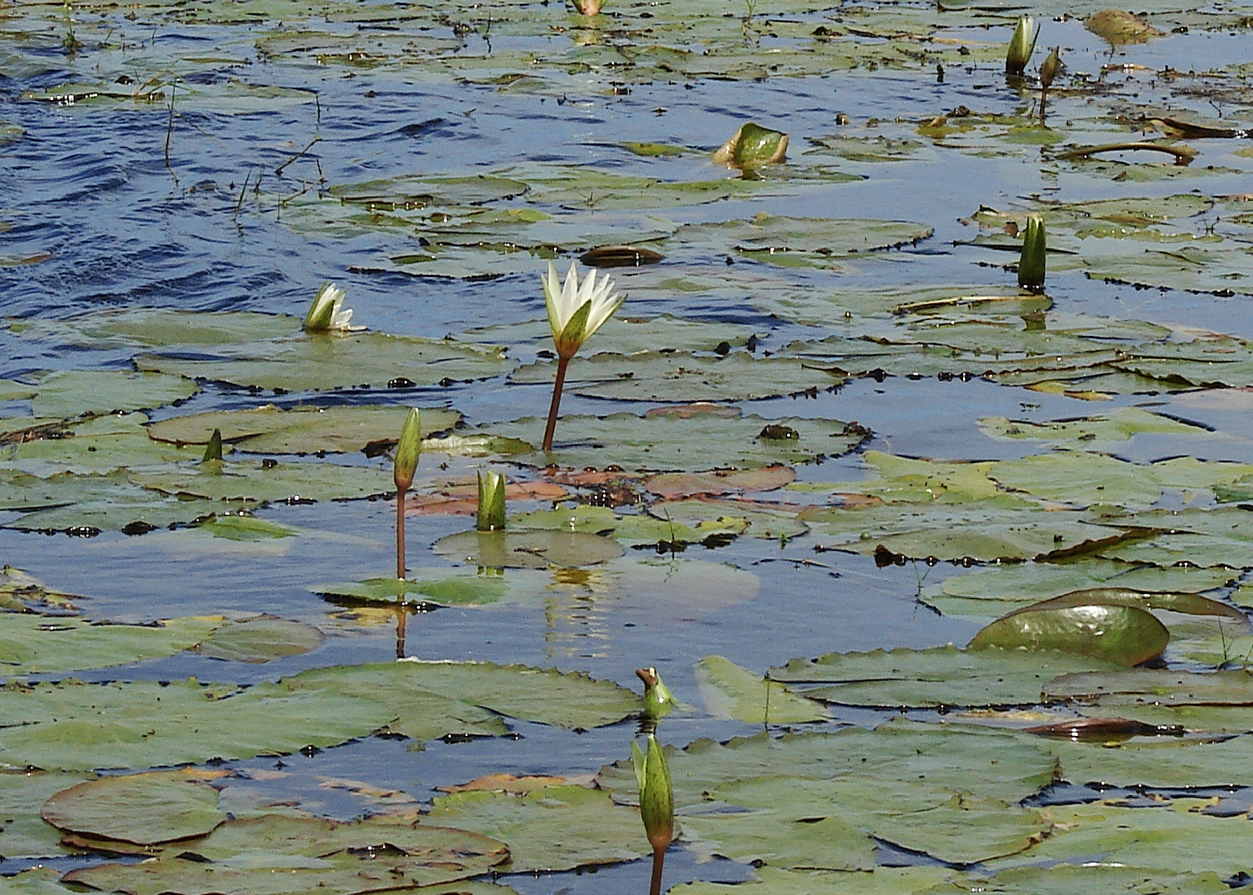 Ninféias